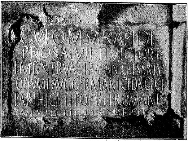 Latin Inscription of the the legio iii cyrenaica bulit into zion gateway. (dated ca. 117). no lost. CIL III, 13587 = AE 1895, 24 = AE 1895, 76 = AE 1895, 94 = AE 1895, 160: [I]ovi Optimo Maximo Sarapidi / pro salute et victoria / Imp(eratoris) Nervae Traiani Caesaris / Opt mi Aug(usti) Germanici Dacici / Parthici et populi Romani / vexill(atio) leg(ionis) III Cyr(enaicae) fecit